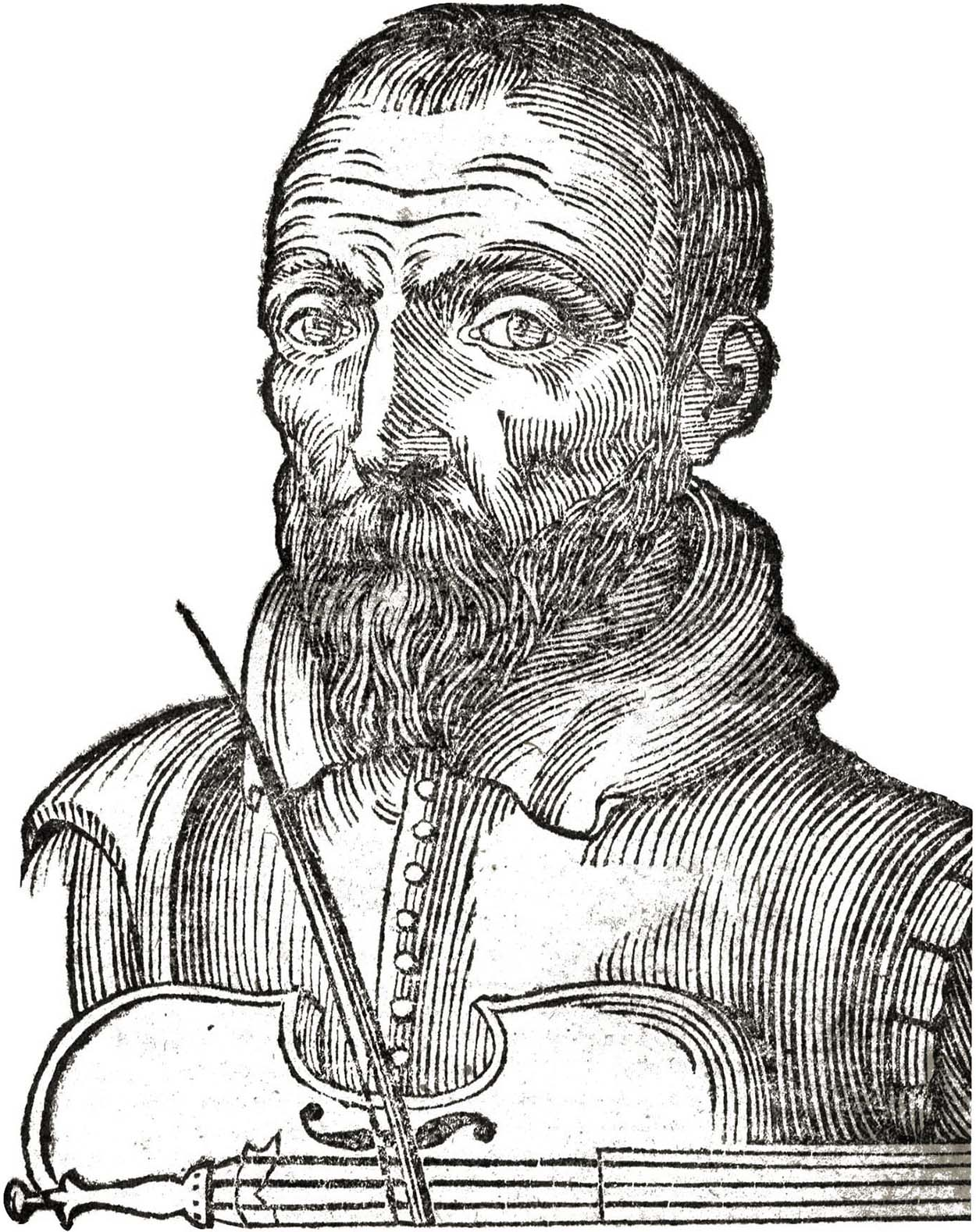 Picture of the italian author Giulio Cesare Croce.